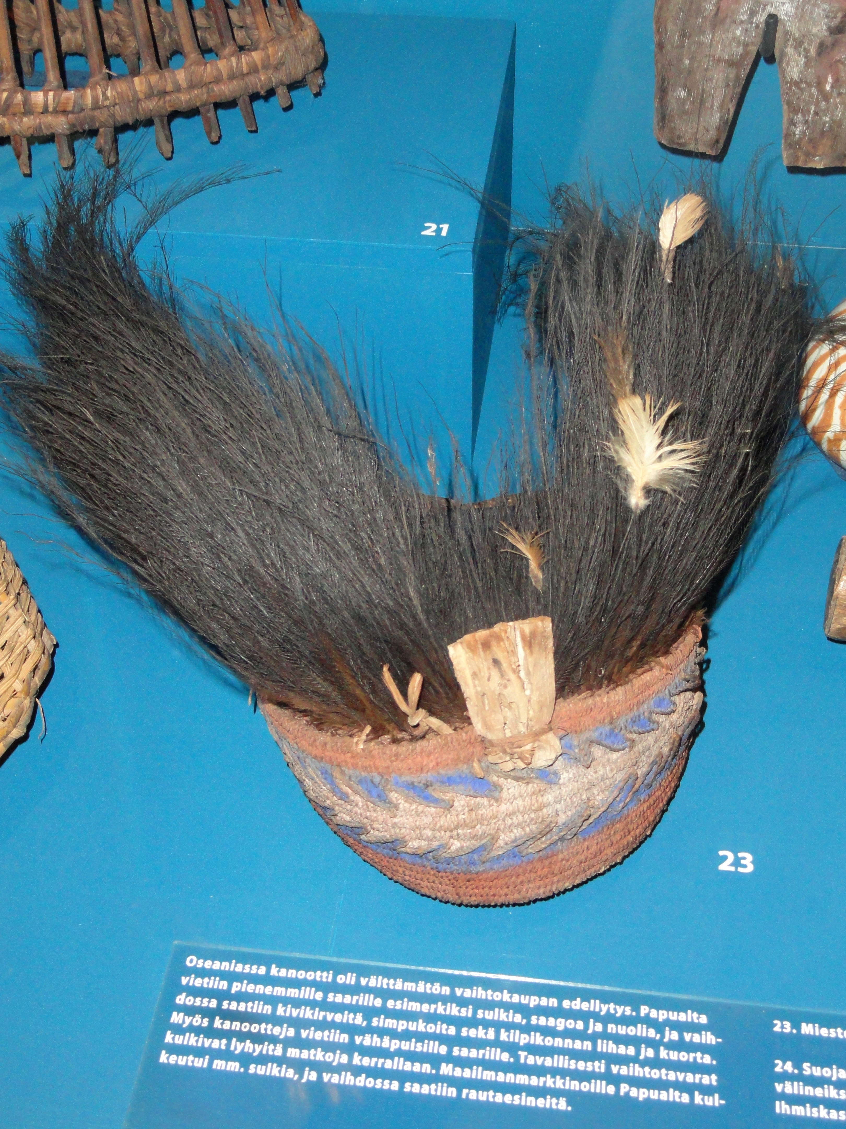 Items from Papua New Guinea. Exhibit from the Gunnar Landtman collection in the Museum of Cultures, Helsinki, Finland.